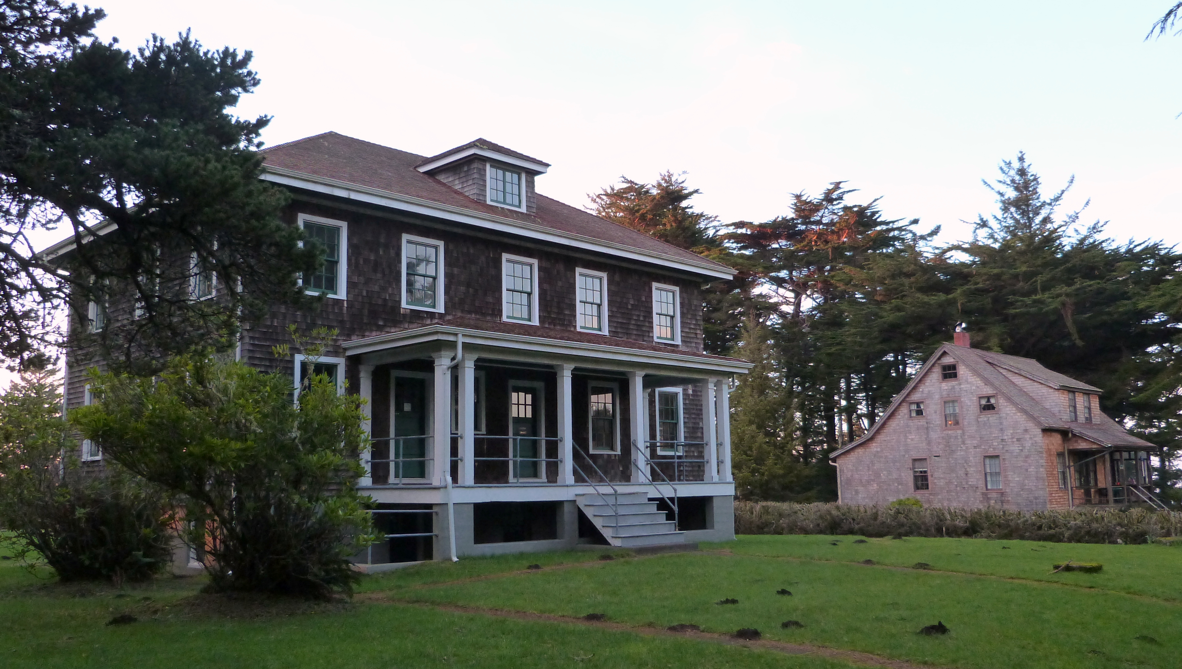 The barracks/office building (left) and officer-in-charge residence (right) of the former Port Orford Coast Guard Station, Port Orford, Oregon, United States.